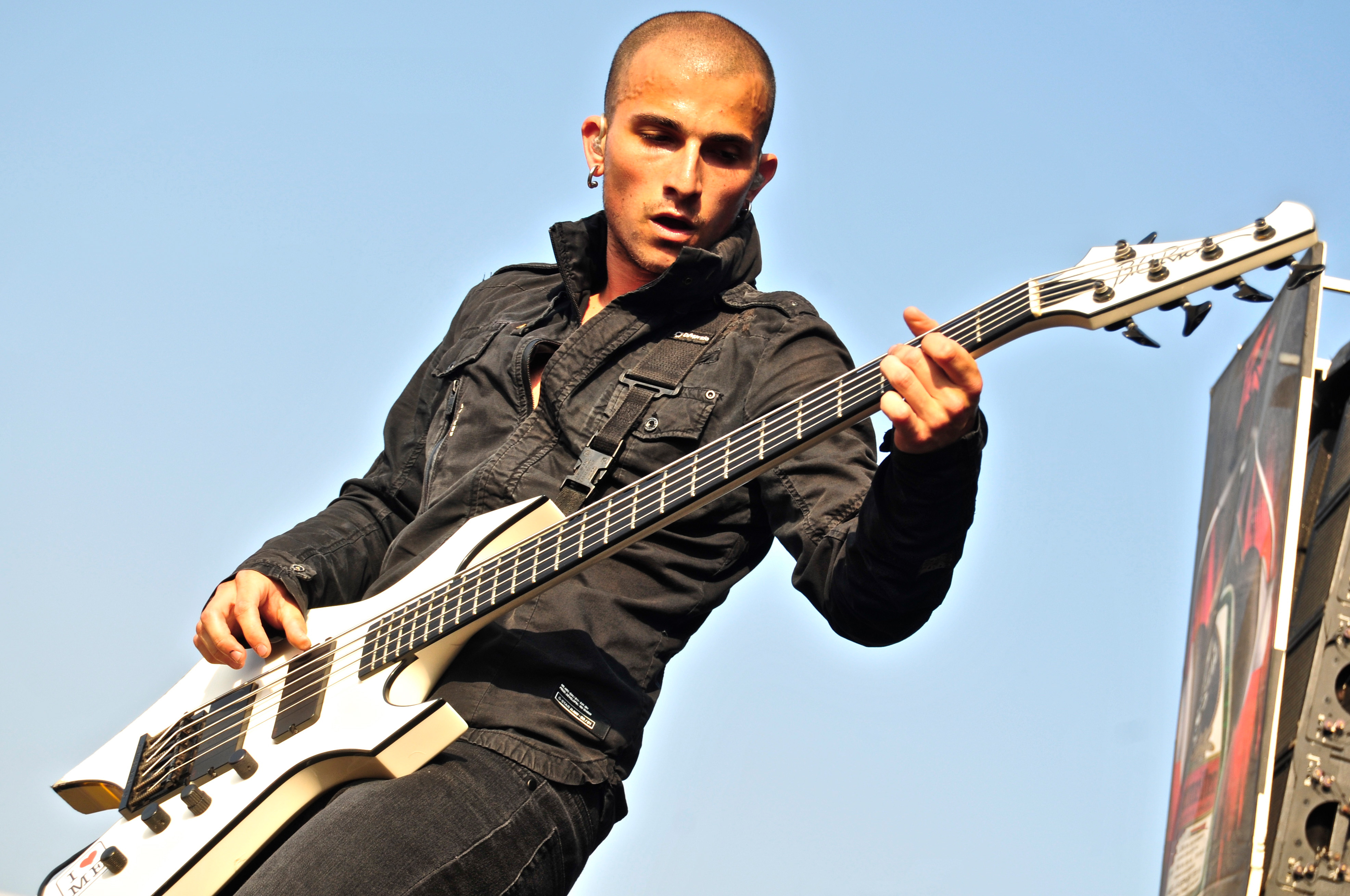 Paolo Gregoletto performing in 2009.